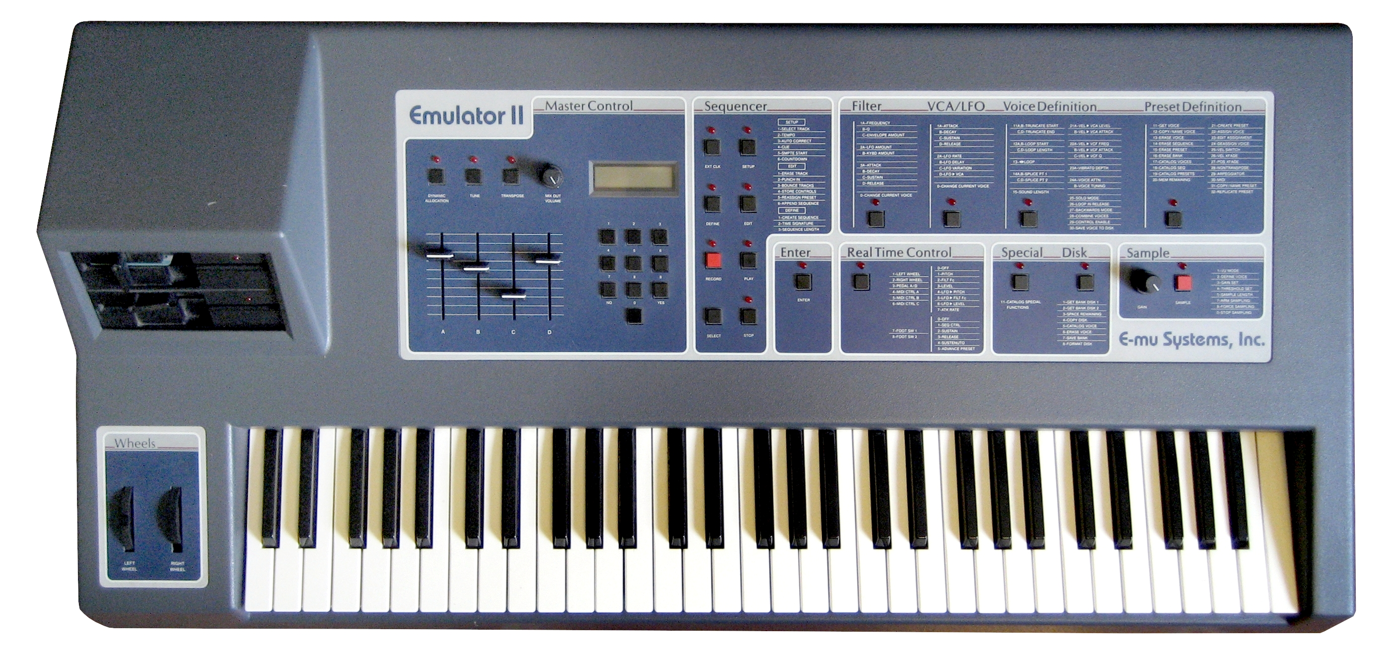 E-mu Emulator II overview - the instrument as it's about to be opened for service